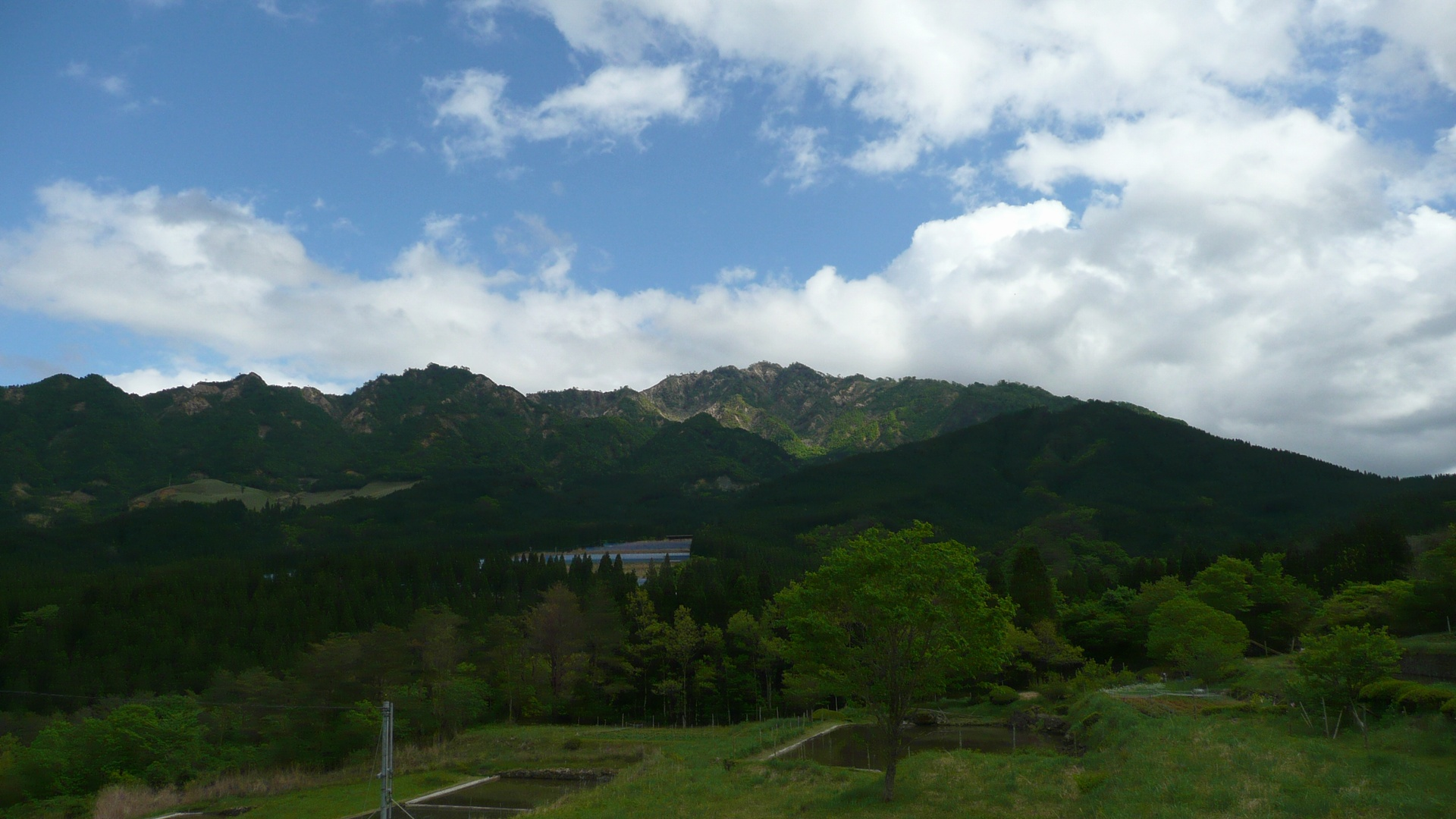 Mt. Ichifusa (Yatate, Shiiba Village, Miyazaki, Japan)